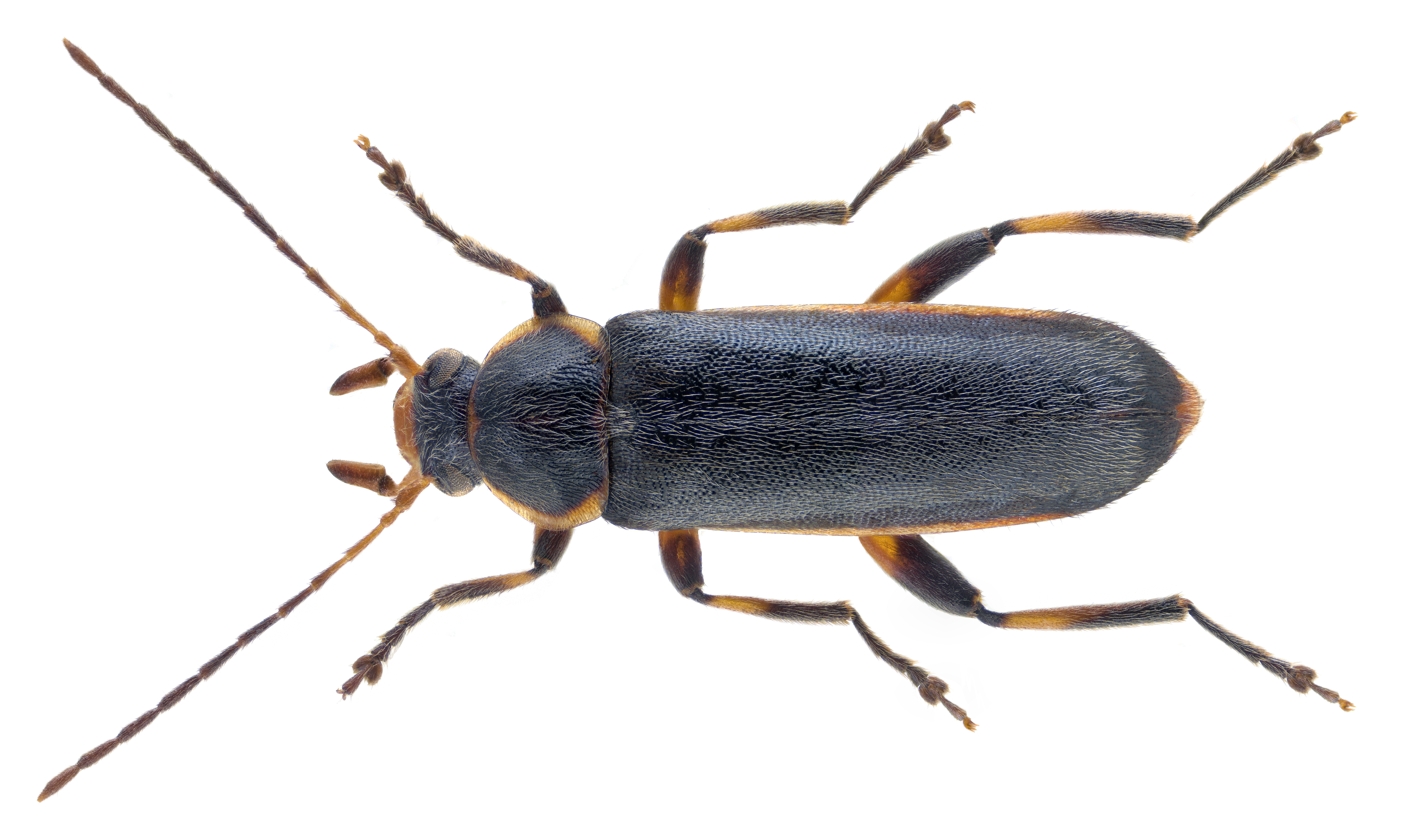 Osphya bipunctata (Fabricius, 1775) Male Family: Melandryidae Size: 8.1 mm (5.0 to 11.0 mm) Distribution: South England to Caspian Sea Ecology: Development in rotten hardwood, imagines on blooming shrubs Location: England, Hunts, Monks Wood leg.det. D.R.Nash, 18.V.1980 Coll. Oxford University Museum of Natural History Photo: U.Schmidt, 2018